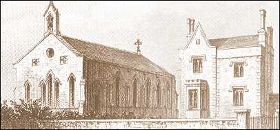 Drawing of the former church of St Clement, Halton, Hastings, East Sussex, England. Built 1839, demolished 1970. The architects Habershon and Brock may have done some restoration work on the church in 1869.